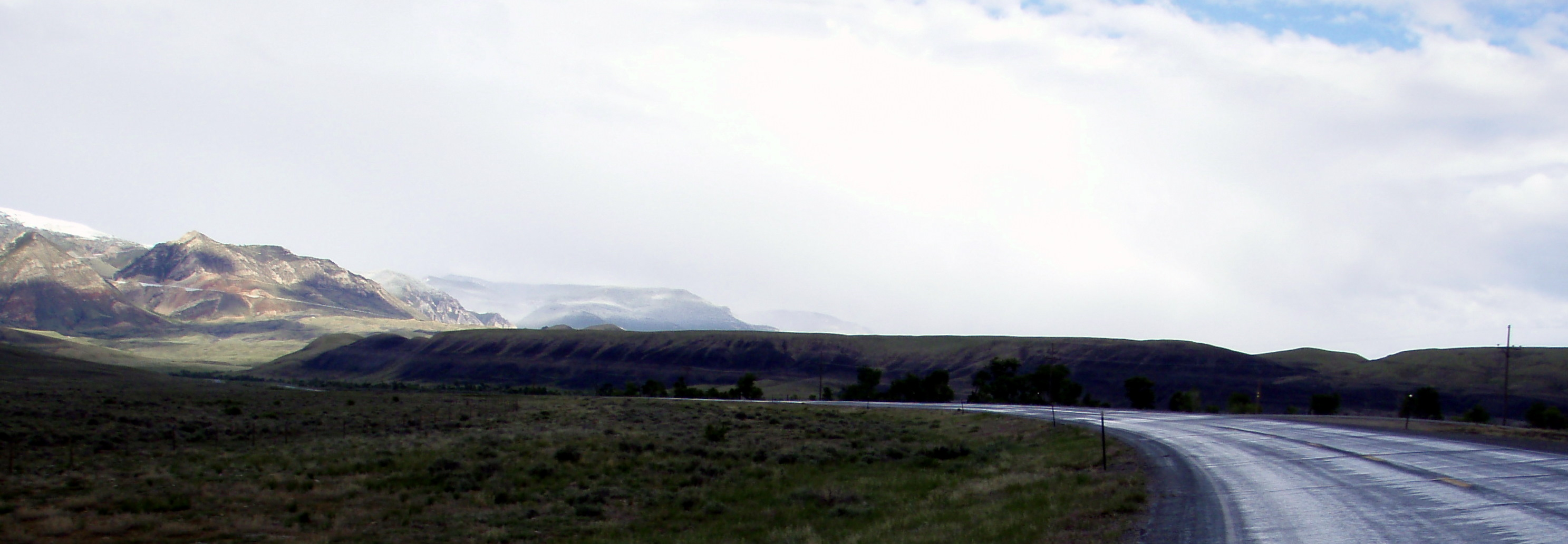 US 14 in Wyoming west of the Big Horn Mountains. The image is of the mountains in the background.